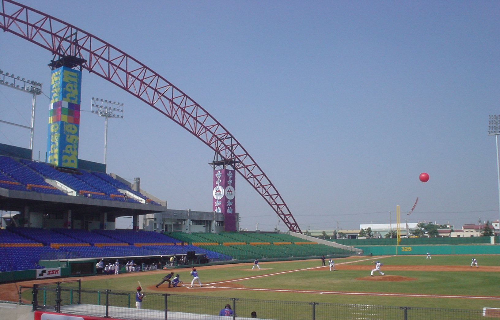 First ever pitch of a competitive baseball game at the Taichung Intercontinental Stadium between South Korea and the Philippines on September 9, 2006. South Korea won 10-0. Photo taken on September 9, 2006.